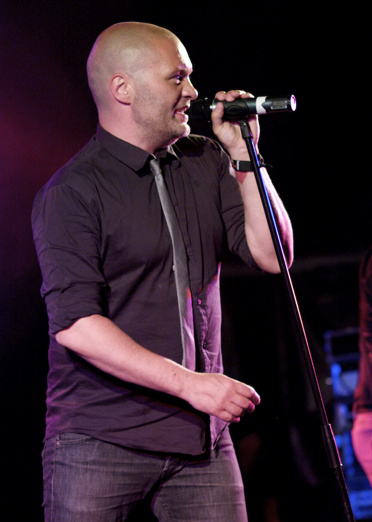 Leadsinger of the band Baal, Bjørn Fjæstad.